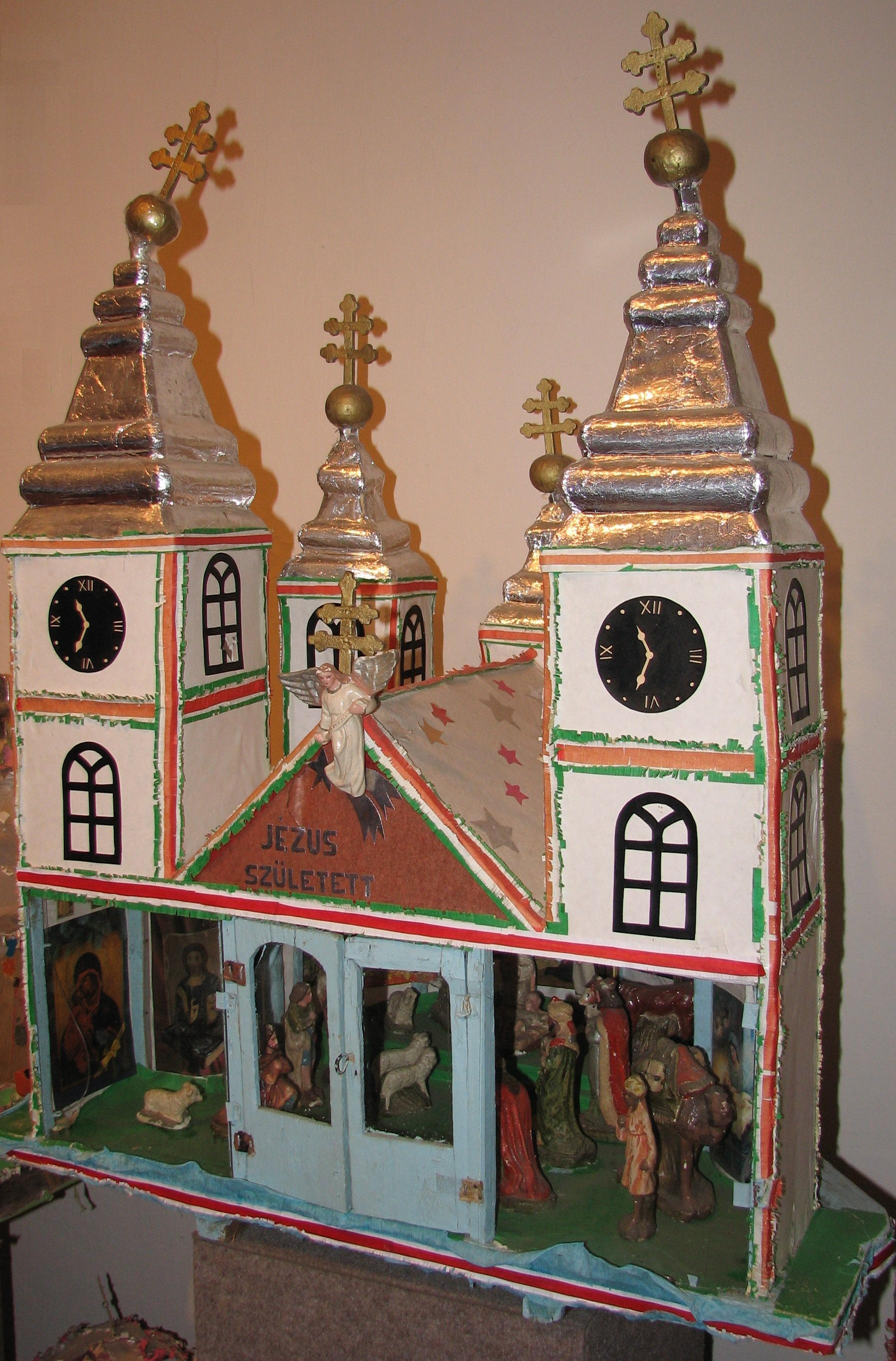 The picture depicts a handmade church that plays the central role in a typical Hungarian Christmas tradition, called Betlehemezés that means something like Bethlehem play. The church on the picture is actually called bethlehem. The Bethlehem plays are usually performed by a group of young people or by children who are at least ten years old during the Christmas' days. The Bethlehem-group usually consists of three shepherds, three kings, an angel, the Virgin Mother and St. Joseph. The bethlehem is built by the group. It has to have a wooden frame covered by cardboard, decoreted with colourful ribbons and "inpopulated" with Christmas related characters made of china or ceramics. The group visits usually relatives, neighbours, friends or sometimes anybody to perform their Bethlehem play that tells the story of Jesus' birth eith some Christmas carols. In the end of the performance they ask blessings for the house and wish merry Christmas. In return they might get some food and money. This bethlehem is exhibited in the local historical museum of Hajdúdorog, Hungary. As this town has a number of Greek Catholic inhabitants the bethlehem built in this town usually follows the shape of the most important Greek Catholic pilgrimage-site: the basilica of Máriapócs.